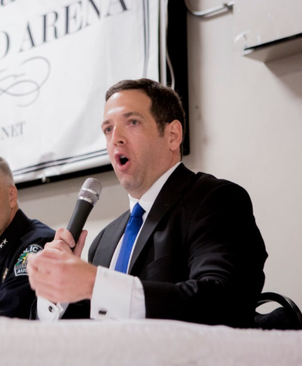 Attorney Adam Loewy speaks at the Race and Policing Panel, held in Austin, Texas on August 24.